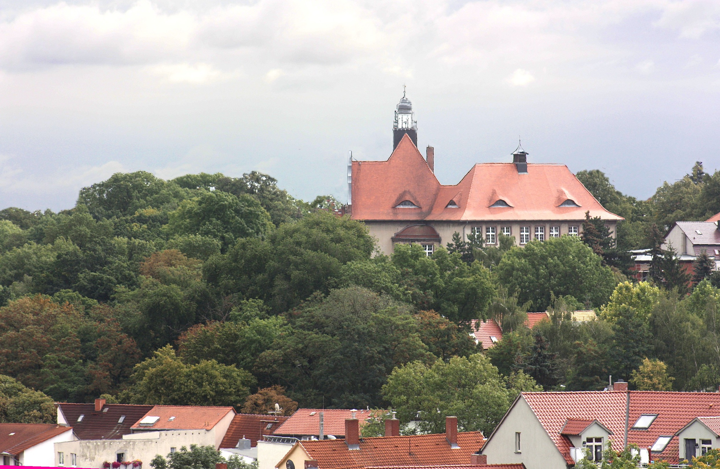 Lutherstadt Eisleben, view to the Geschwister Scholl School This is a photograph of an architectural monument. 75349